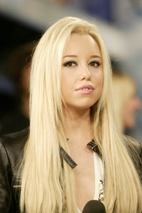 The cast of the 2007 film Bratz, at MuchMusic for a MuchOnDemand episode.